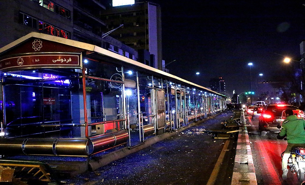 Damage of Ferdousi BRT station during 2018 Iranian protests